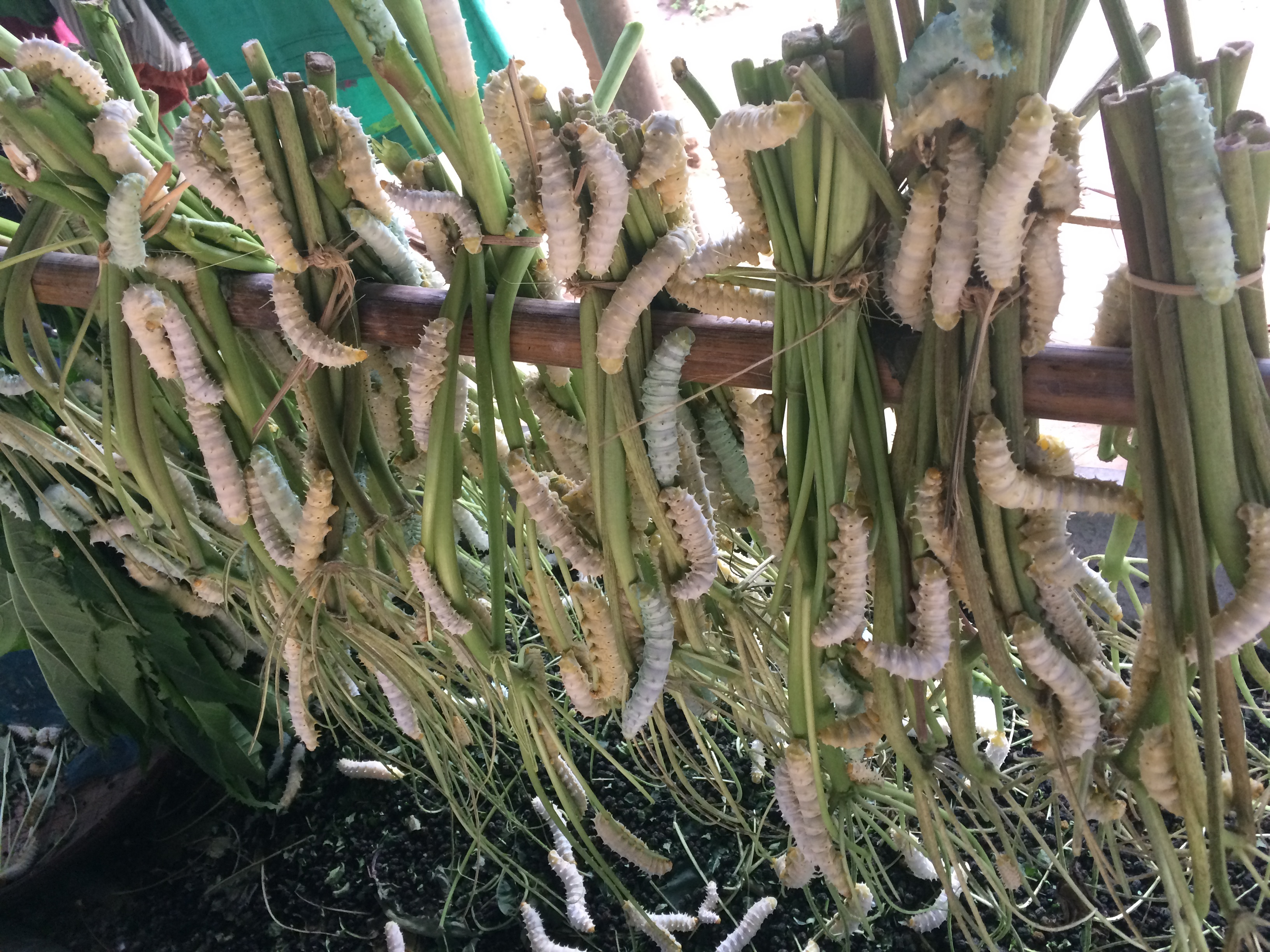 Certain communities in Assam rear Eri silk worm like this